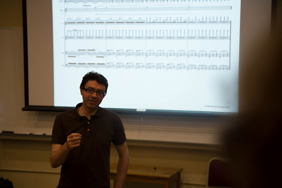 Donnacha Dennehy lectures at the 2012 Mizzou International Composers Festival in Columbia, MO